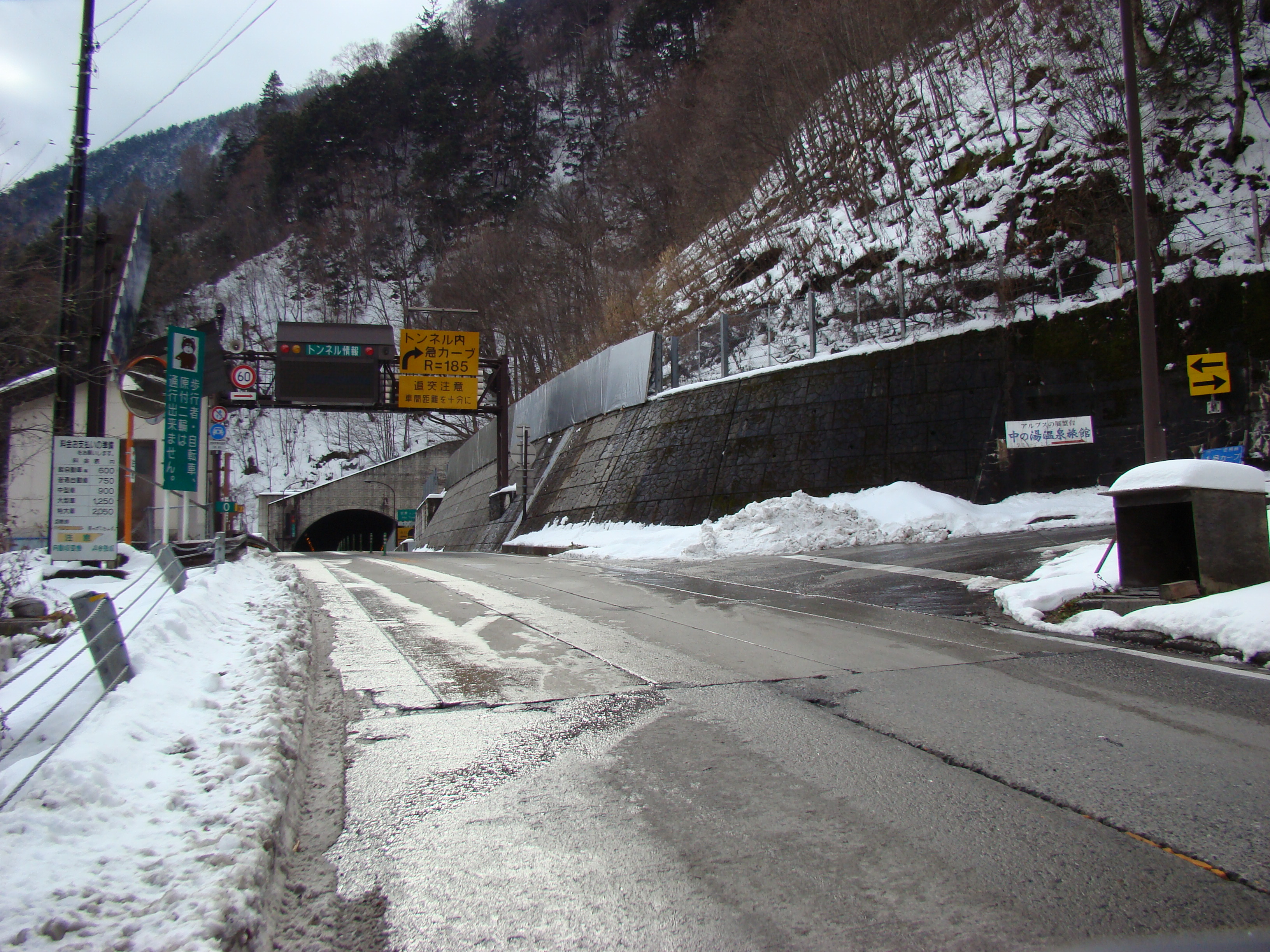 Nakanoyu Interchange（Chubu Jukan Expressway,Route 158 Abotougedouro） （“touge” means pass） Place - Azumi-Nakanoyu,Matsumoto City,Nagano Prefecture,Japan. Date - November 23, 2008 Format - JPEG, 3264x2448pixel, 24bit colors. Photographer - NALA_Wiki.